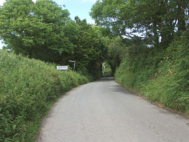 Approaching Treworga from the south